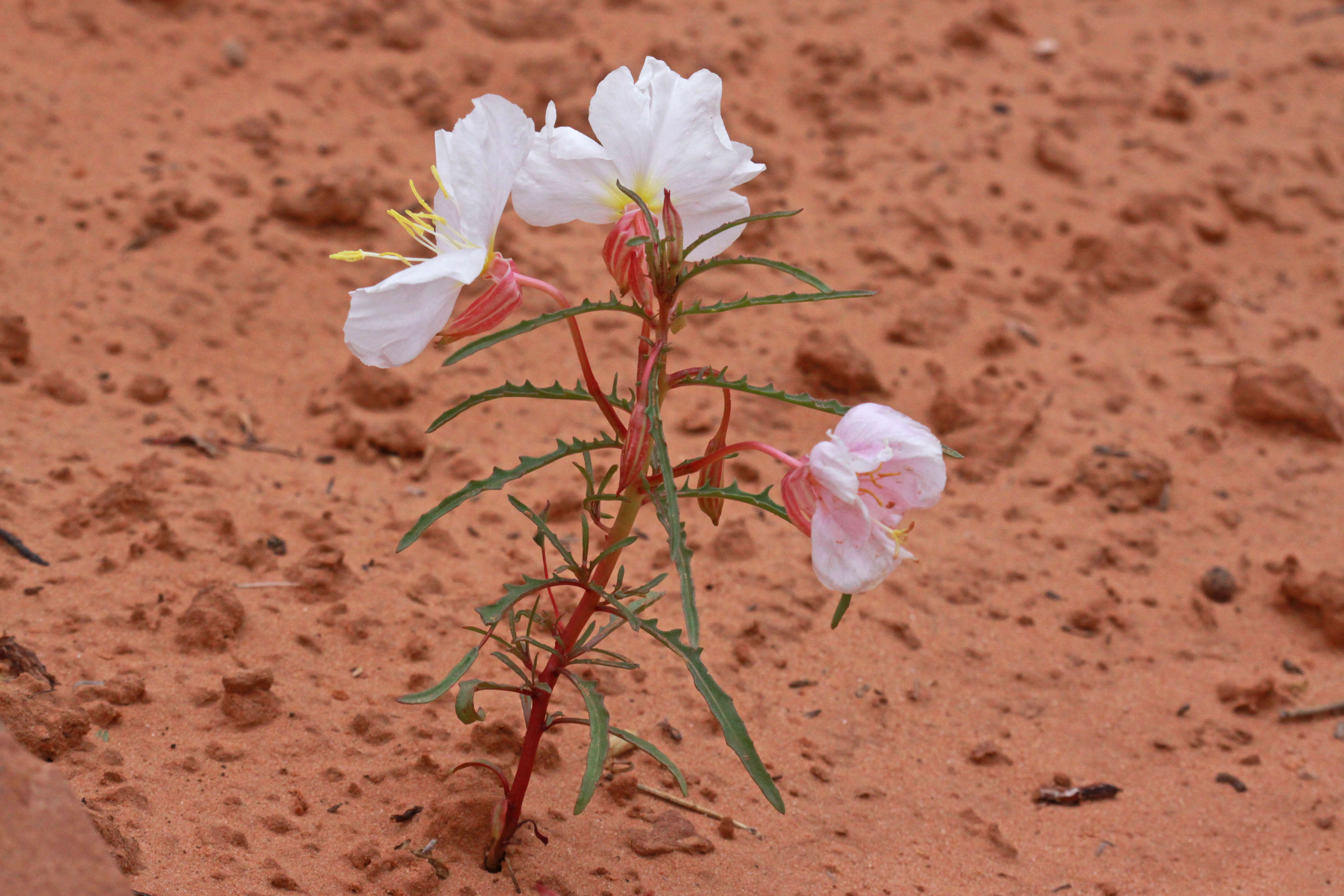 Whitest evening primrose (Oenothera albicaulis), Evening Primrose family (Onagraceae). Windows Trail, Arches Natl. Park, Utah